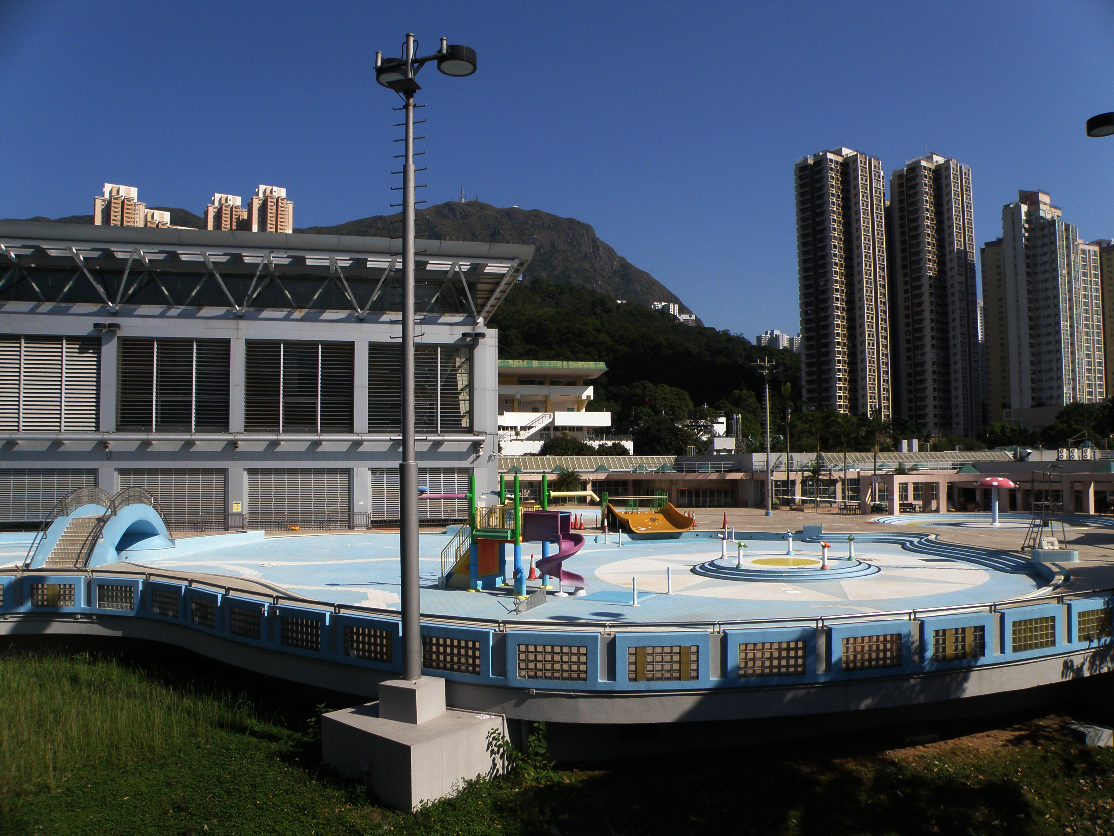 Swimming Pool in Hammer Hill, Hong Kong.